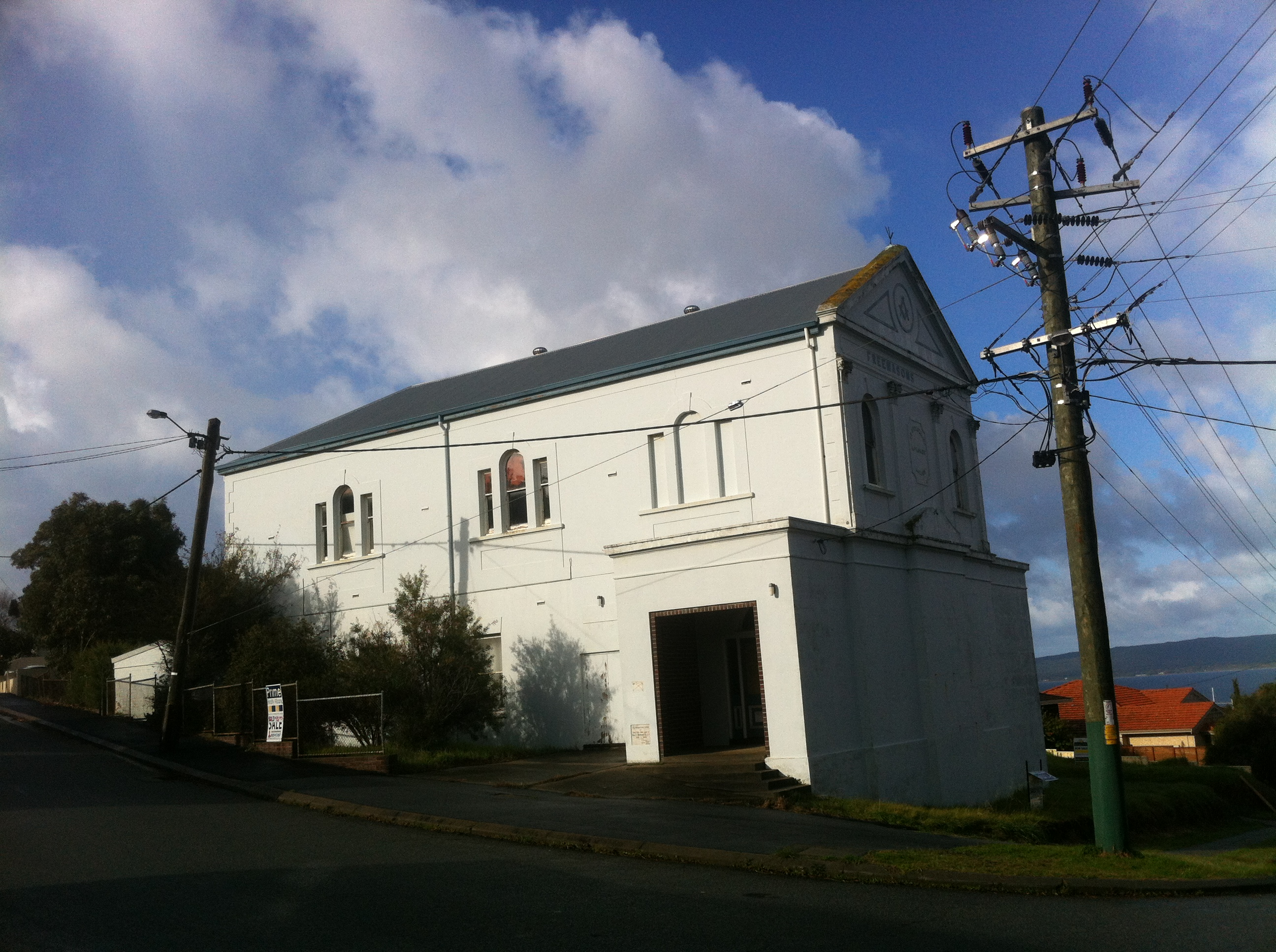 Northern side of hall